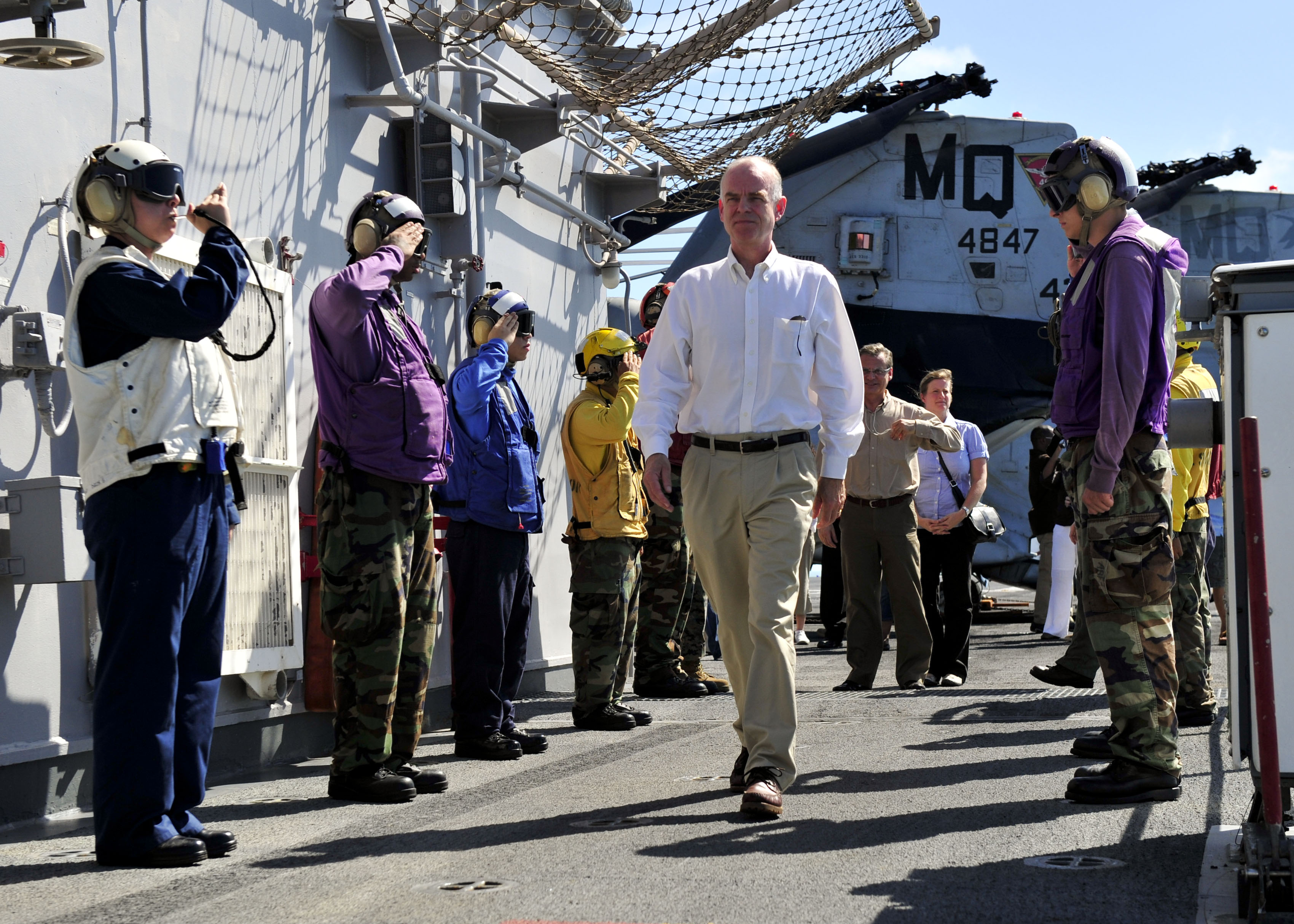 CARIBBEAN SEA (Oct. 31, 2010) Dutch Ambassador to Suriname Aart Jacobi walks through rainbow sideboys during a tour of the multi-purpose amphibious assault ship USS Iwo Jima (LHD 7). The assigned medical and engineering staff embarked aboard Iwo Jima are working with partner nations to provide medical, dental, veterinary and engineering assistance in eight countries. (U.S. Navy photo by Mass Communication Specialist 2nd Class Jonathen E. Davis/Released)